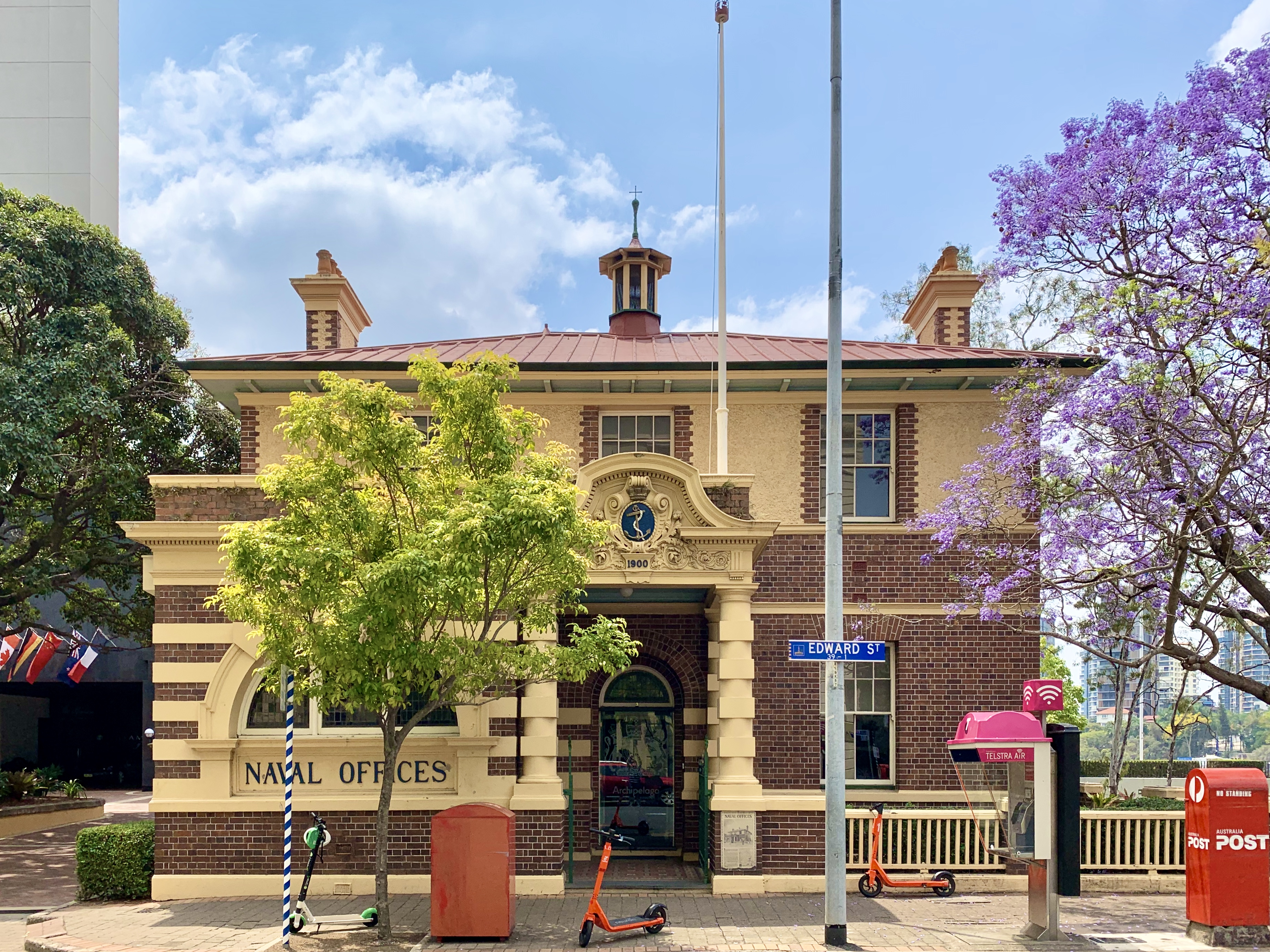 Naval Offices, Brisbane in October 2019